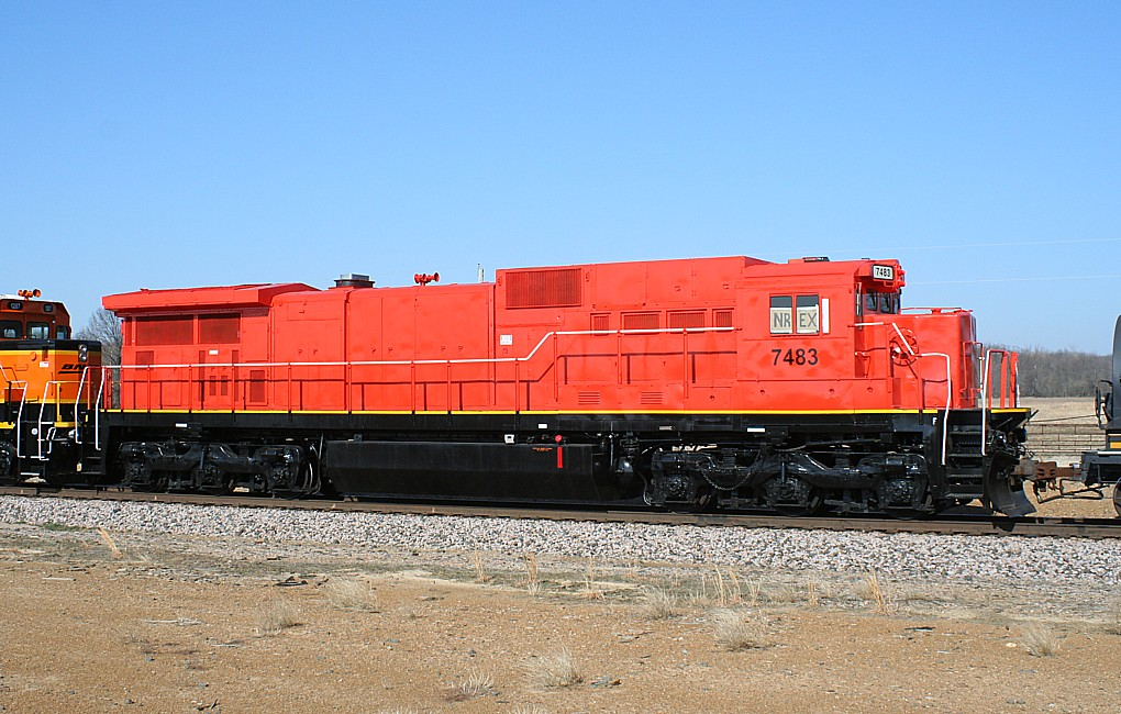 National Railway Equipment Company (NREX) 7483 GE C39-8 [1]